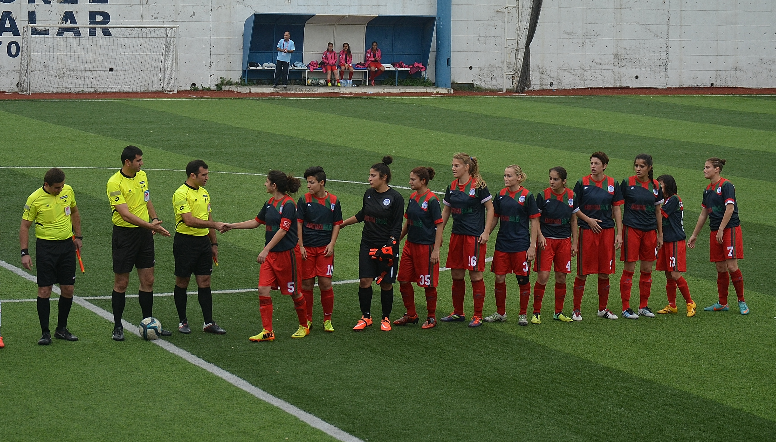 Ataşehir Belediyespor vs Karşıyaka BESEM Spor in the 2014-15 season